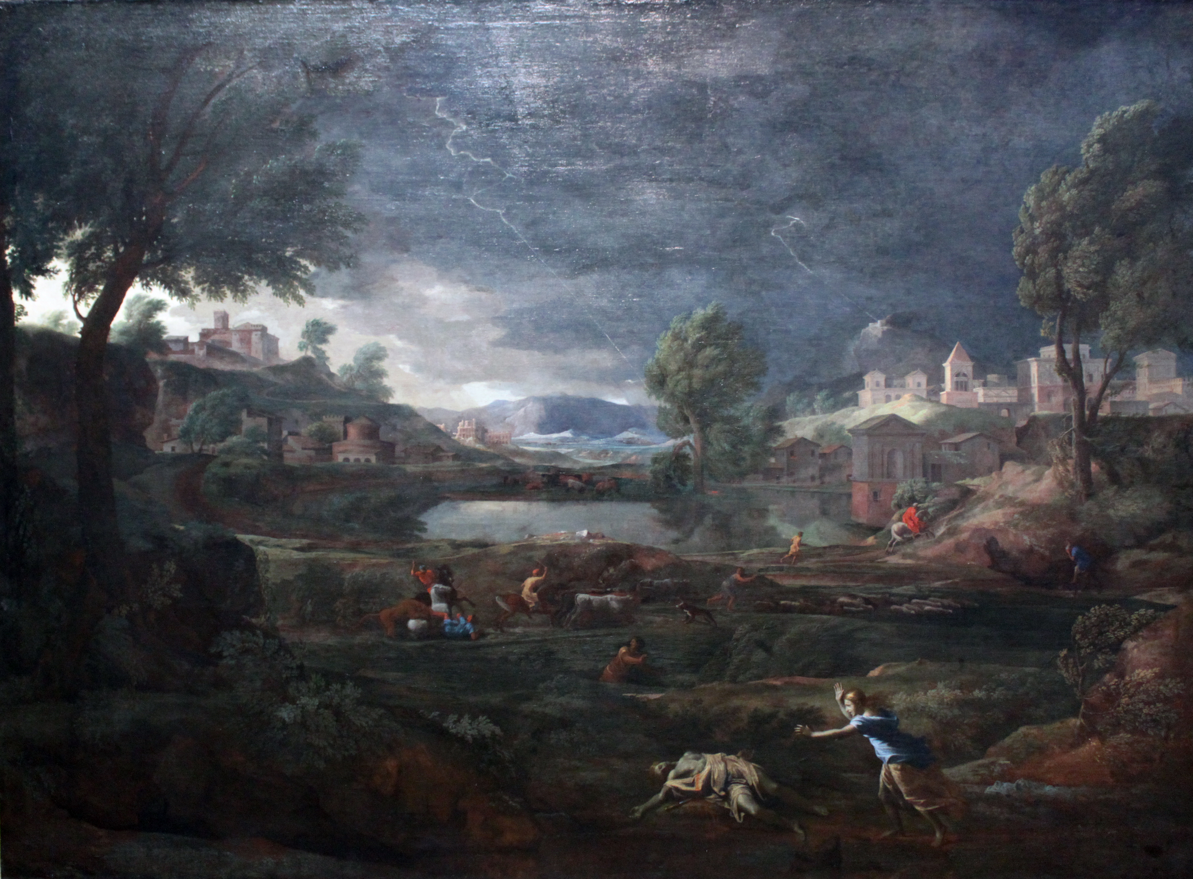 Landscape during a Thunderstorm with Pyramus and Thisbe